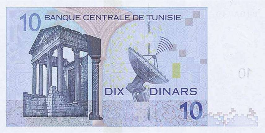 New 10 TND banknote issued in 07.11.2005